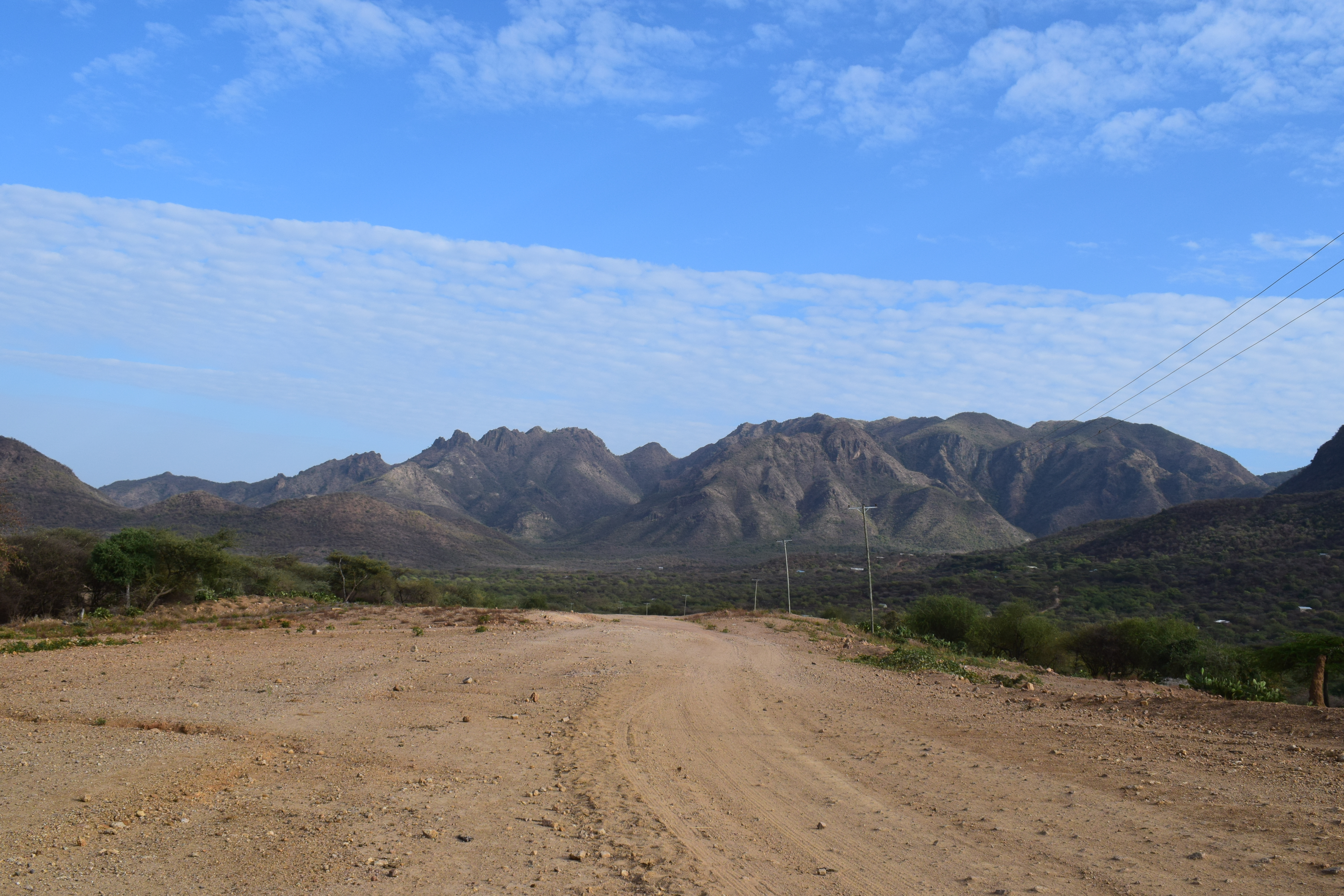 This is an image with the theme "Africa on the Move or Transport" from: Kenya